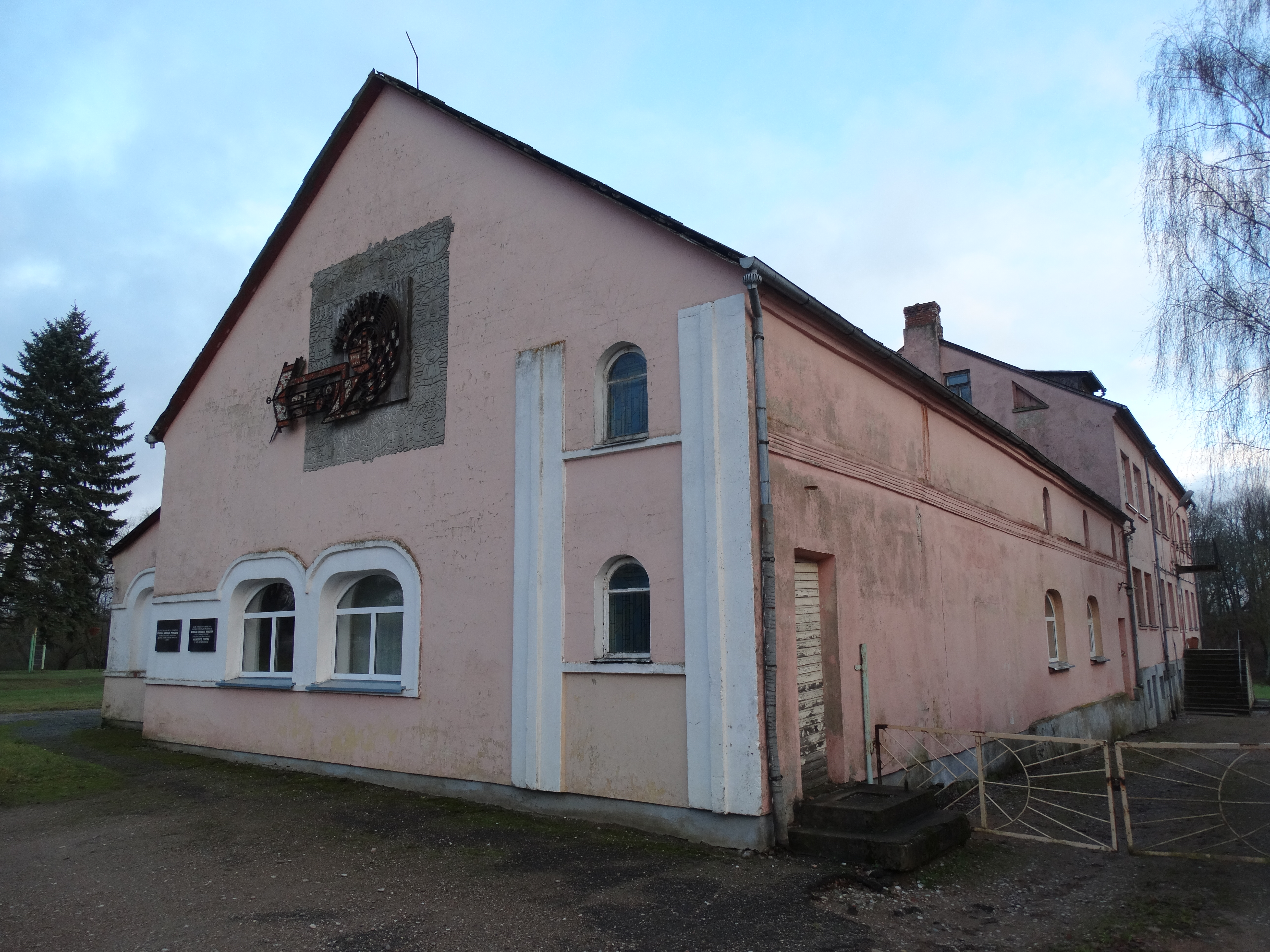 Former chapel in Vytėnai (Pilis I), Jurbarkas district, Lithuania